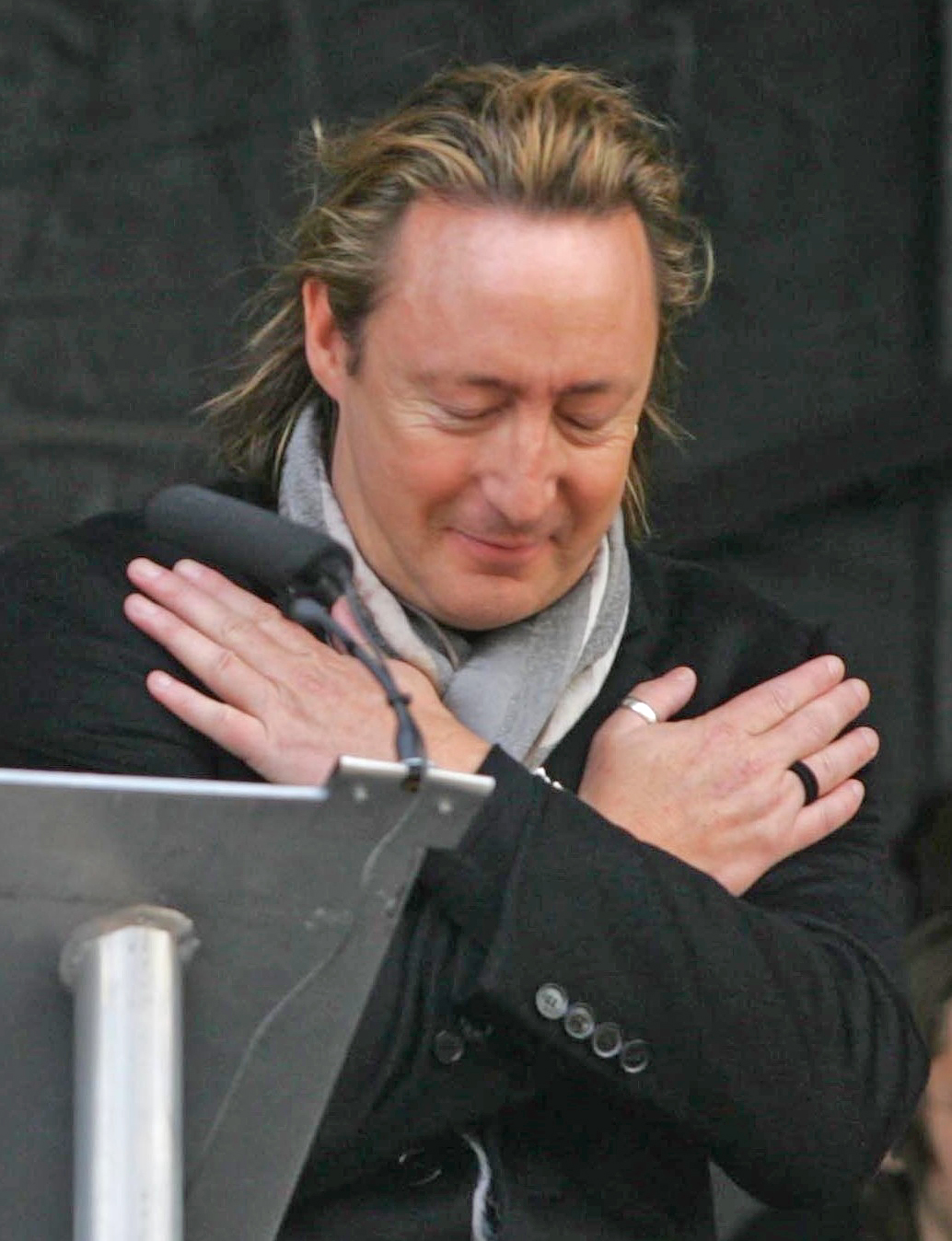 Cynthia and Julian Lennon at the unveiling of the john Lennon Peace Monument in Chavasse Park, Liverpool on 9th October 2010 with the Liverpool Signing Choir in the background. Celebrating peace and the loving memory of John Lennon on what would have been Lennon's 70th Birthday.